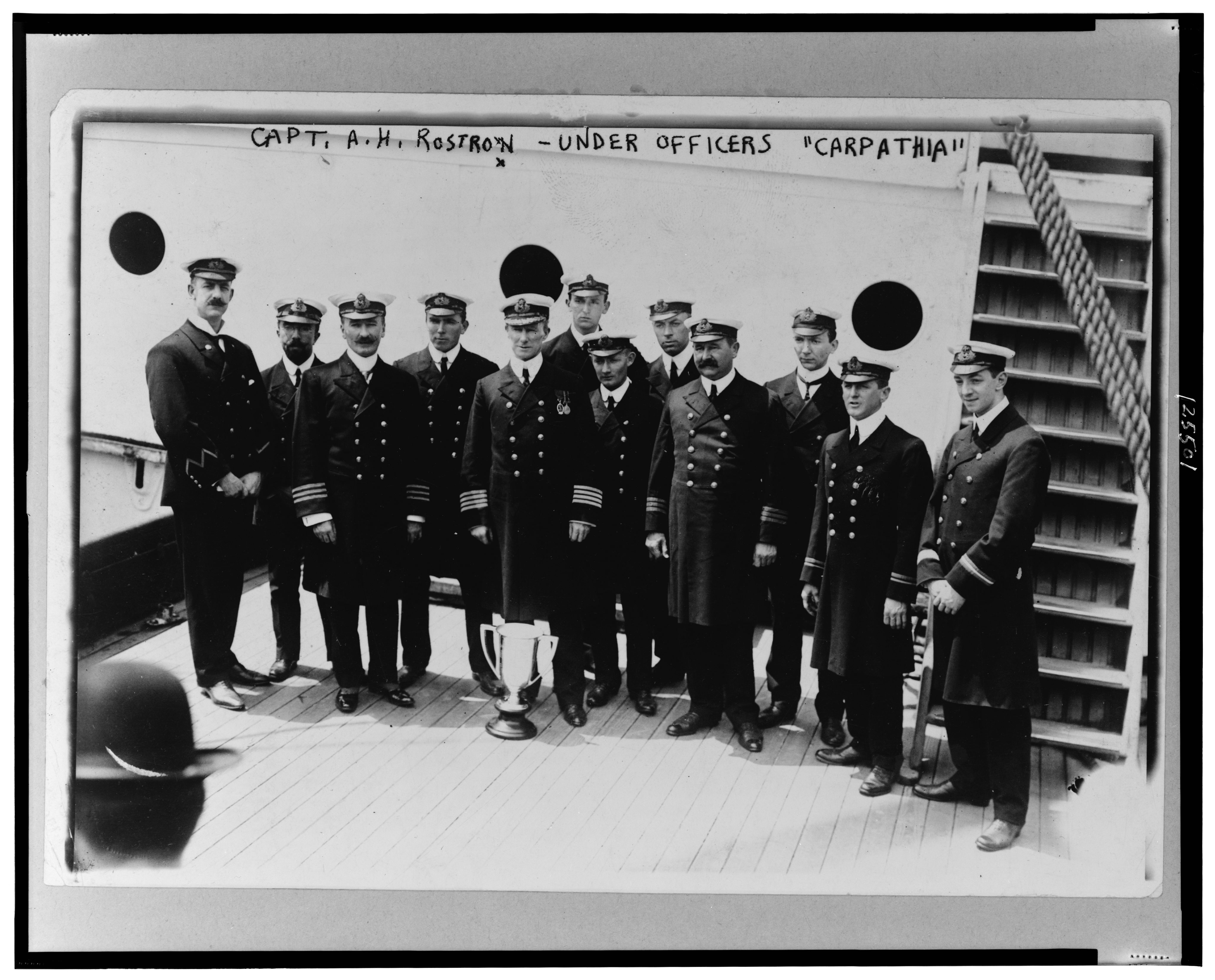 Capt. A.H. Rostron and under officers of "Carpathia". Twelve sailors posed, standing, full-length, on deck of ship, with trophy.